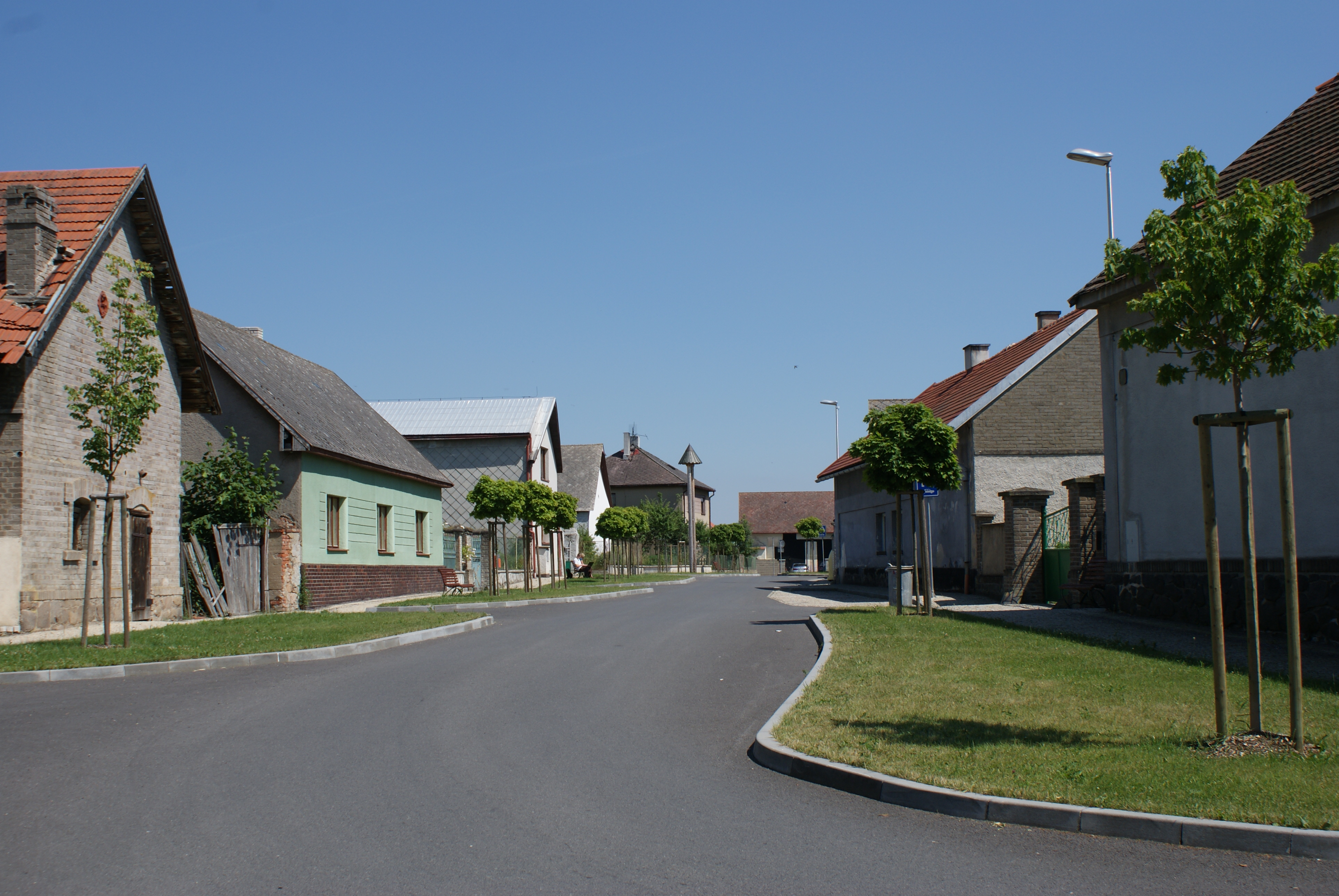 Chrást, a village in Příbram district, Czech Republic, village common. Česky: Chrást, okres Příbram, náves